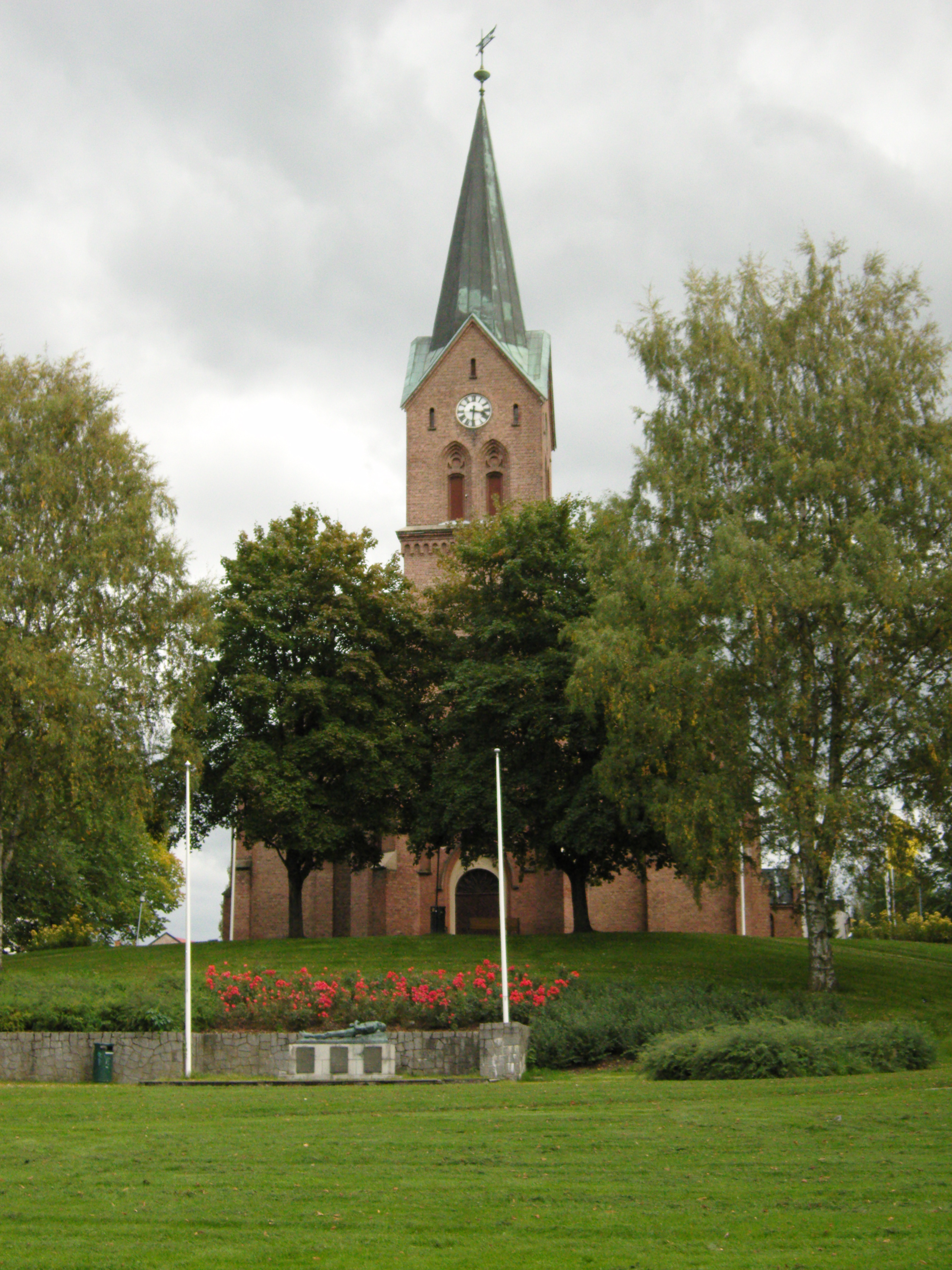 Sarpsborg church.